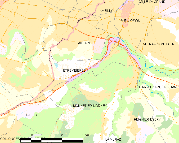 Map of French municipality Étrembières